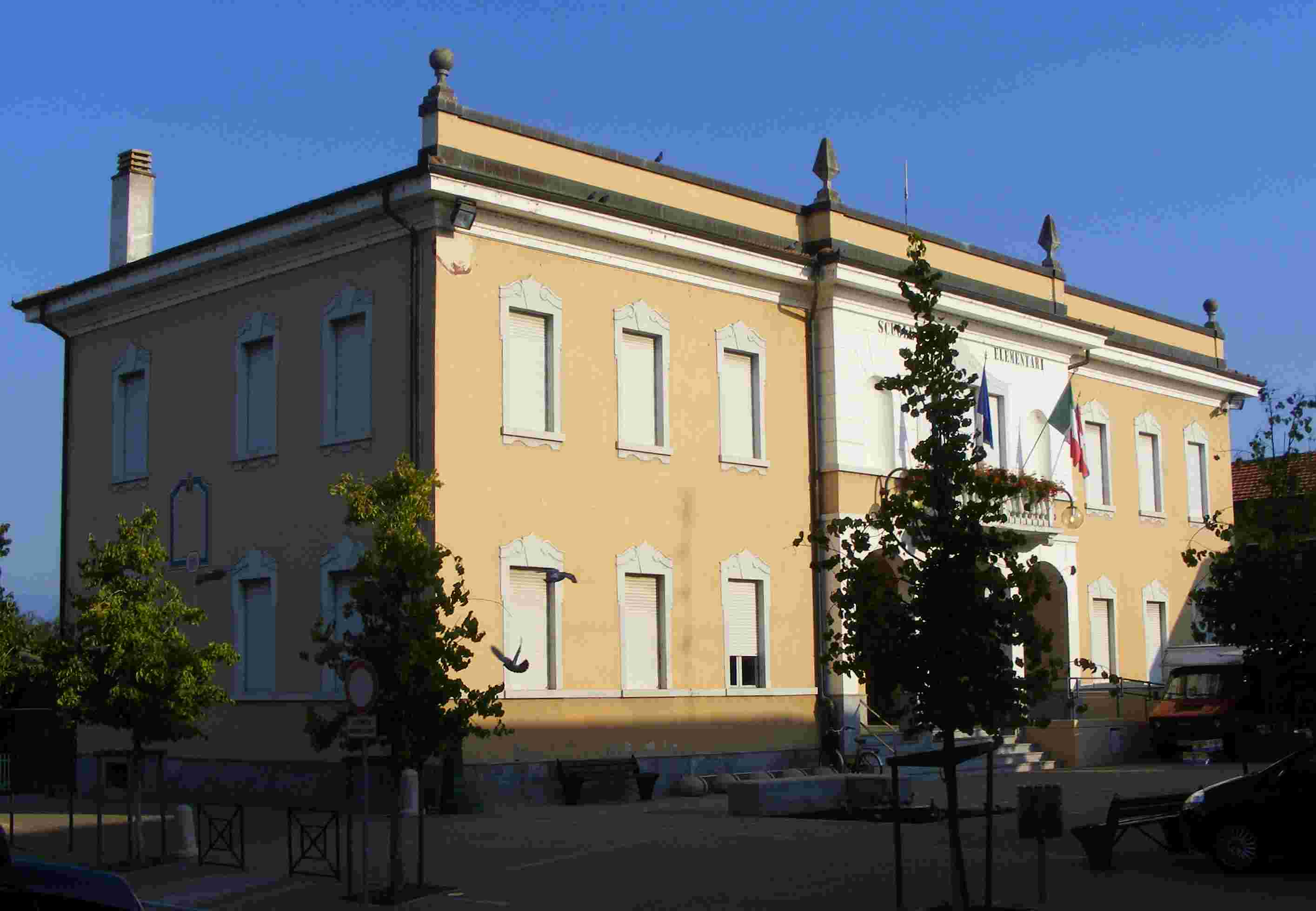 Rovasenda city hall with primary school (VC, Italy)